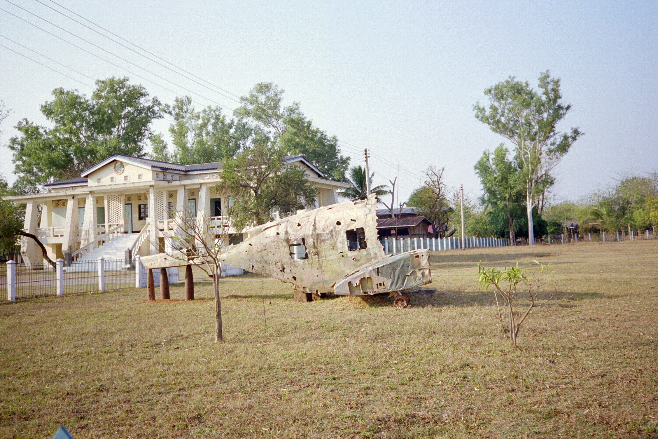 Part of a wreckage of a U.S. Air Force Sikorsky HH-3 Jolly Green Giant helicopter on display outside the town hall of Muang Phin, southern Laos. The helicopter was shot-down during the Vietnam War.